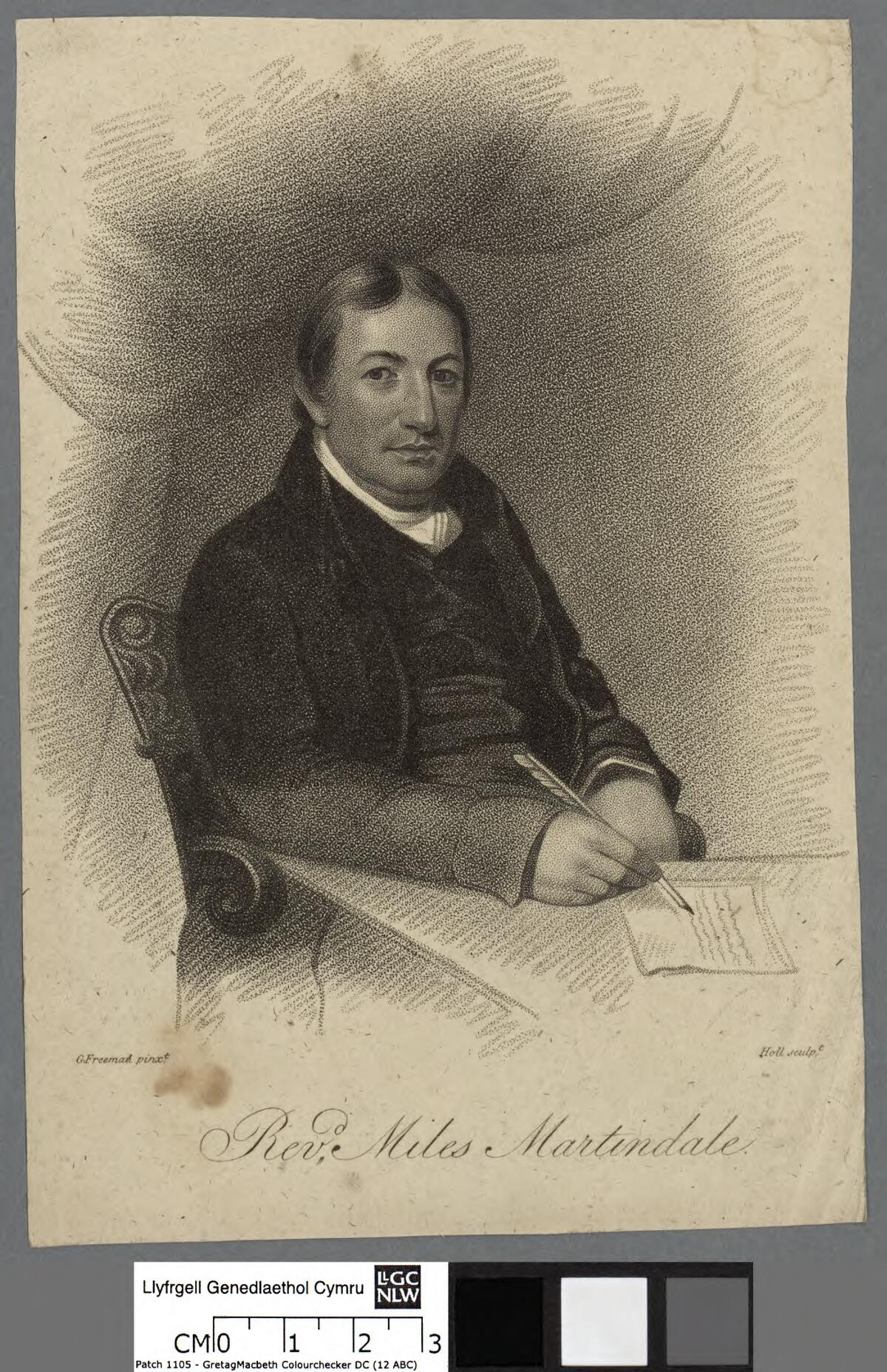 A portrait from the Welsh Portrait Collection at the National Library of Wales. Depicted person: Miles Martindale – English Wesleyan minister